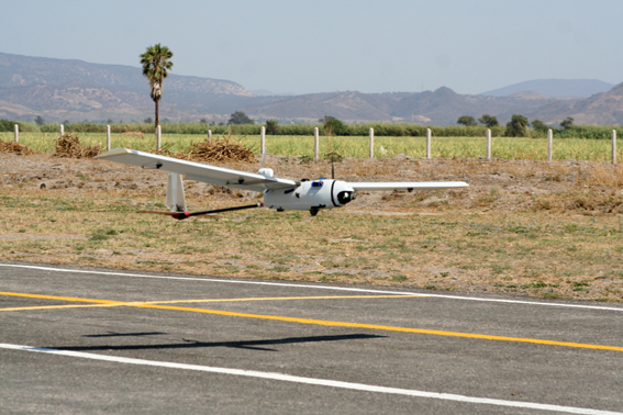 E1 Gavilán in take-off mode